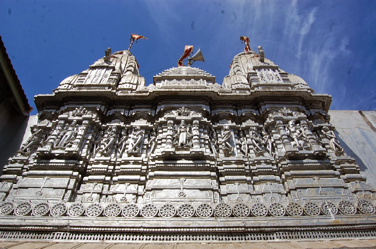 Carving outside Jain Temple